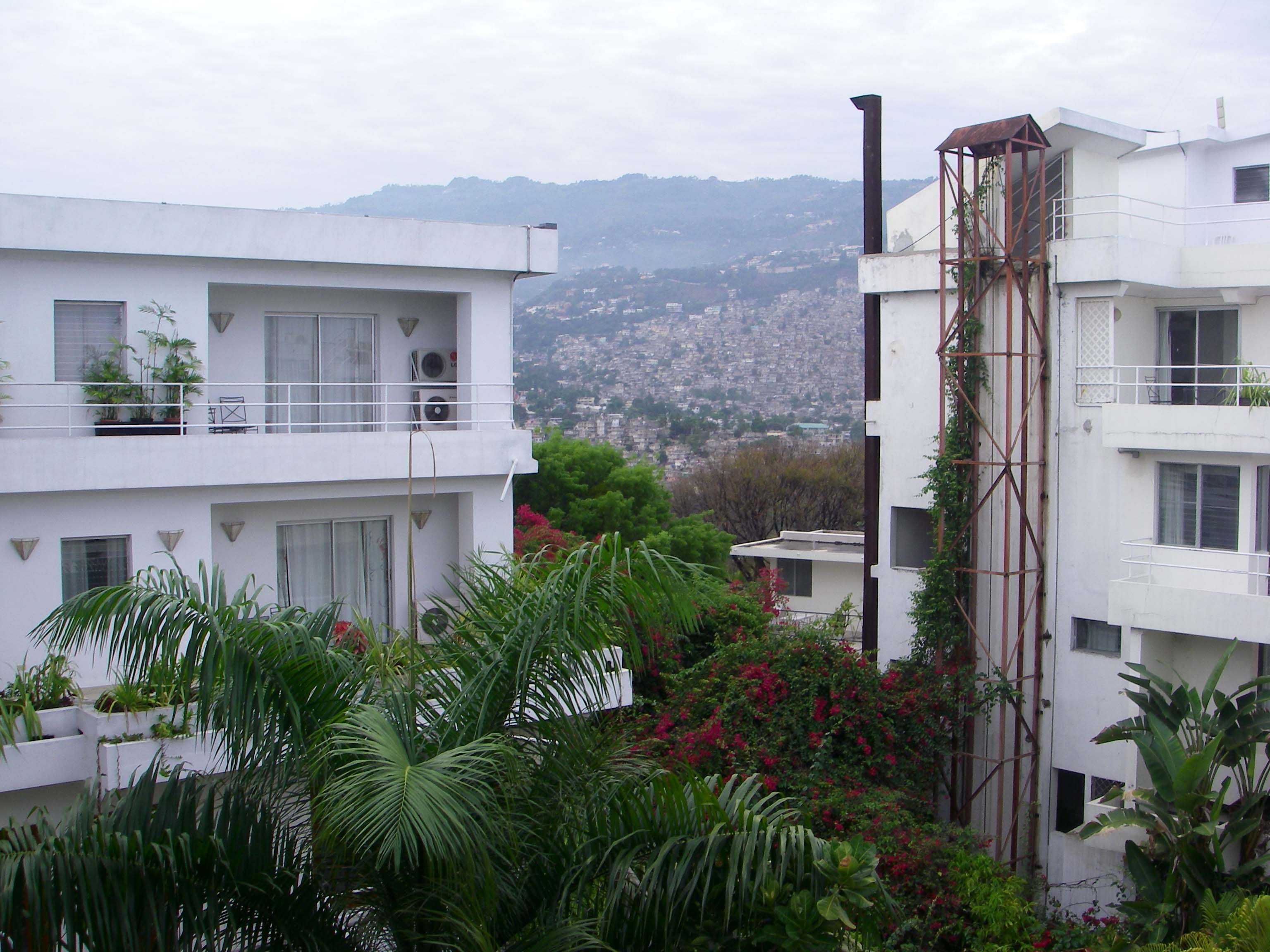 Hotel Montana (before earthquake destruction), Port-au-Prince, Haiti